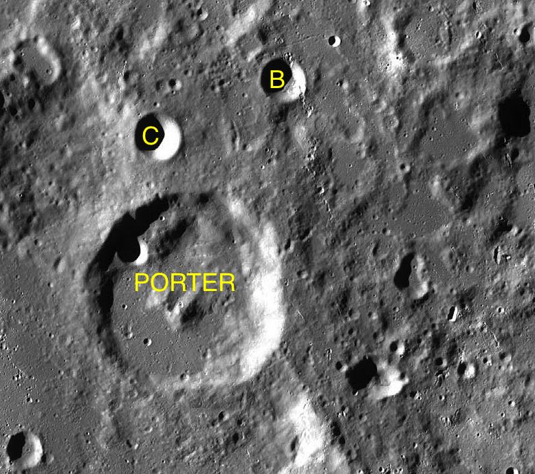 Part of the chart LAC-126 used for the presentation